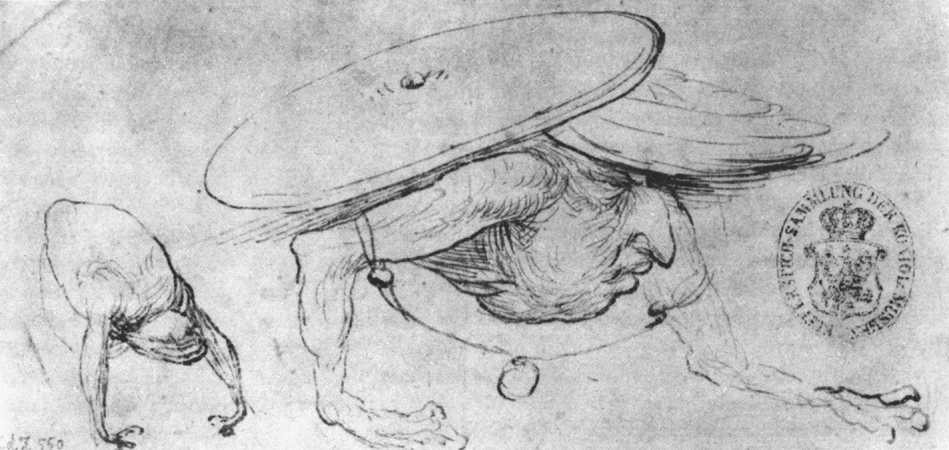 Reverse of a two-sided drawing. For the front, see File:Tweemonsters.jpg.